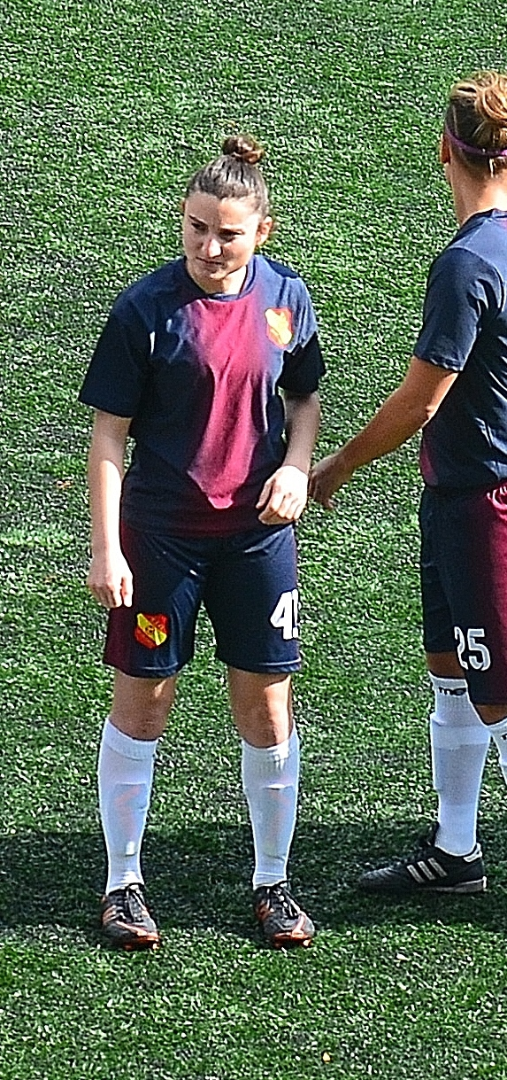 Tuğba Babacan of Trabzon İdmanocağı in the 2015-16 Turksh Women's First Football League